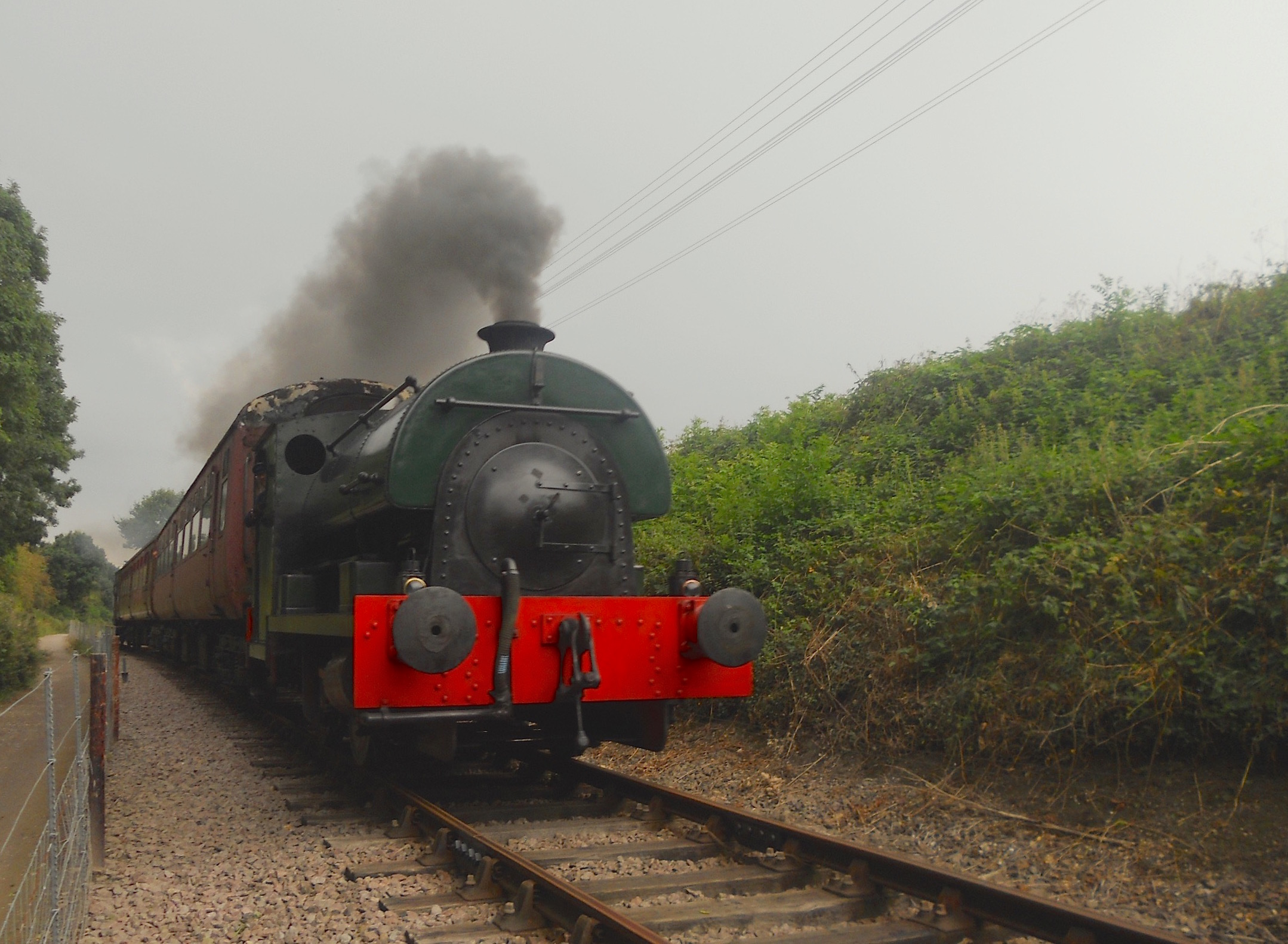 Peckett 0-4-0ST Works No. 2104 at speed with her passenger train